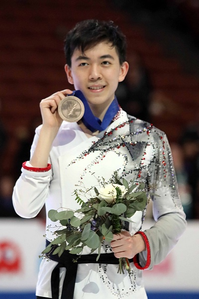 Vincent Zhou at the Four Continents Championships 2019 - Awarding ceremony